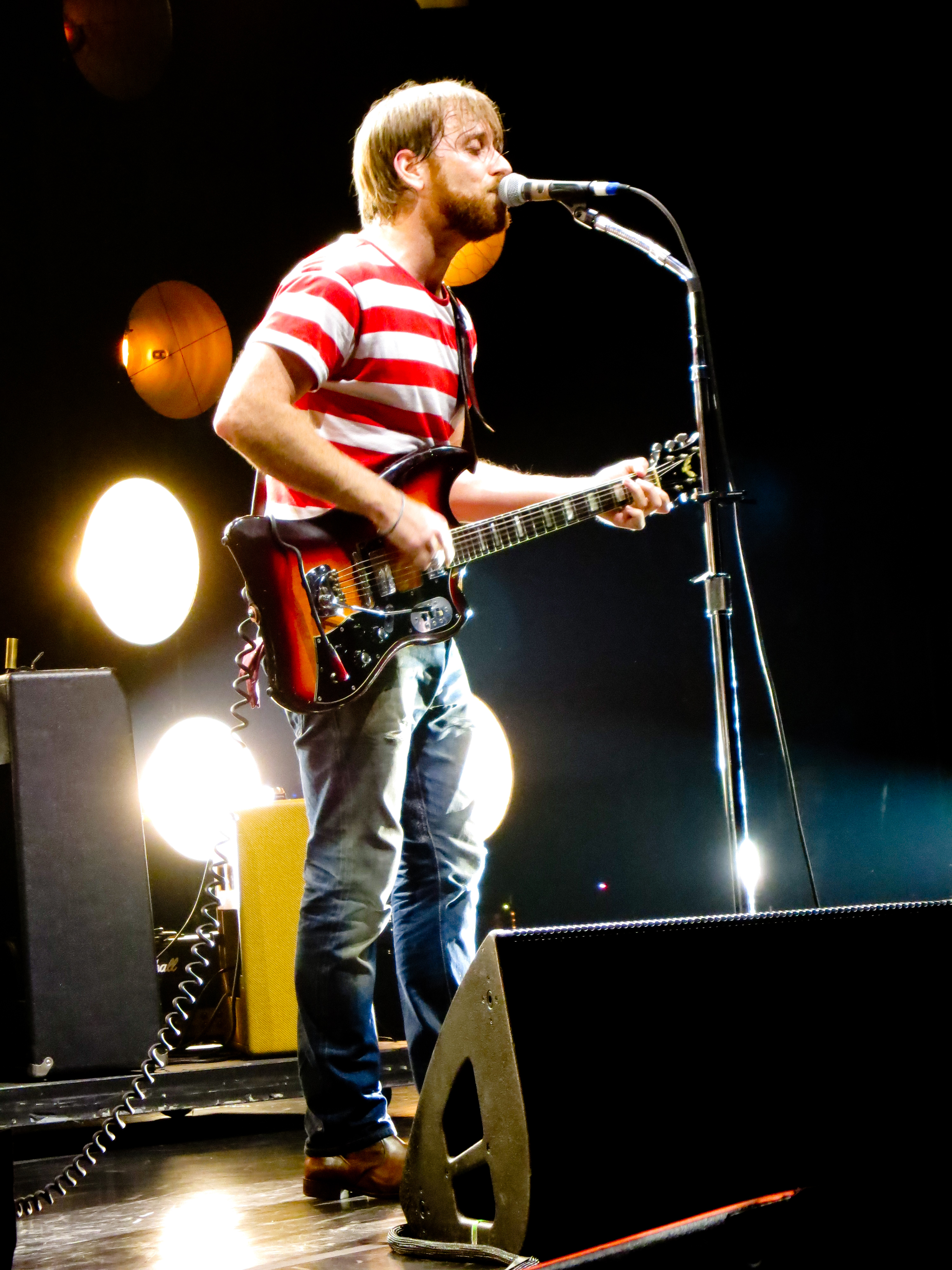 Dan Auerbach performing with The Black Keys at Madison Square Garden in New York City on March 22nd, 2012.